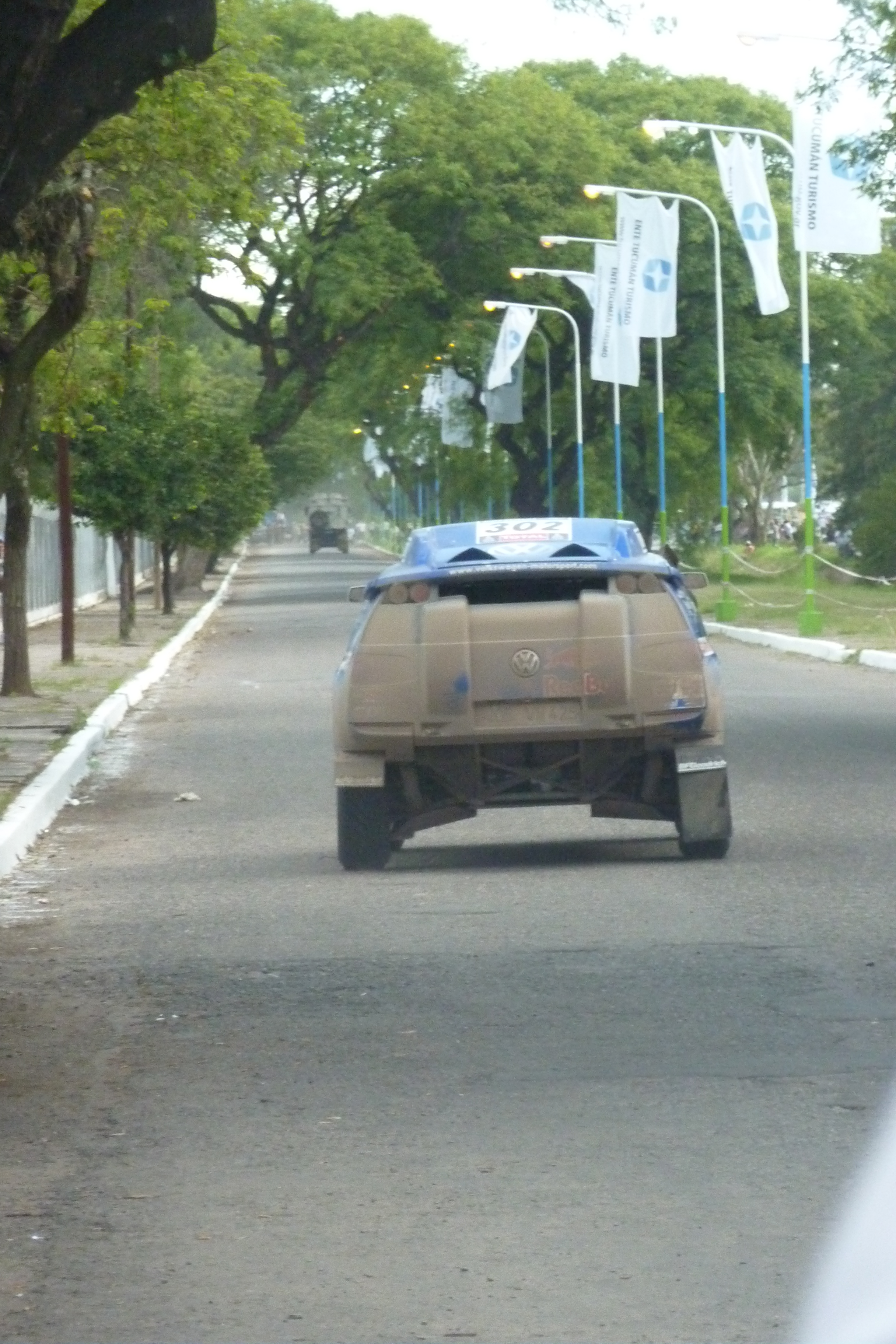 A VW Race Touareg 3 during the 2011 Dakar Rally. The photo was taken after the 2nd stage in San Miguel de Tucumán. The driver of the car is Nasser Al-Attiyah, the co-pilot Timo Gottschalk.